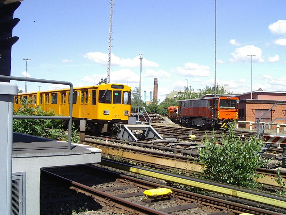 Berlin U-Bahn train of type A3L82, no 647 at Olympia-Stadion station; in the background the electro-diesel locomotive 4079